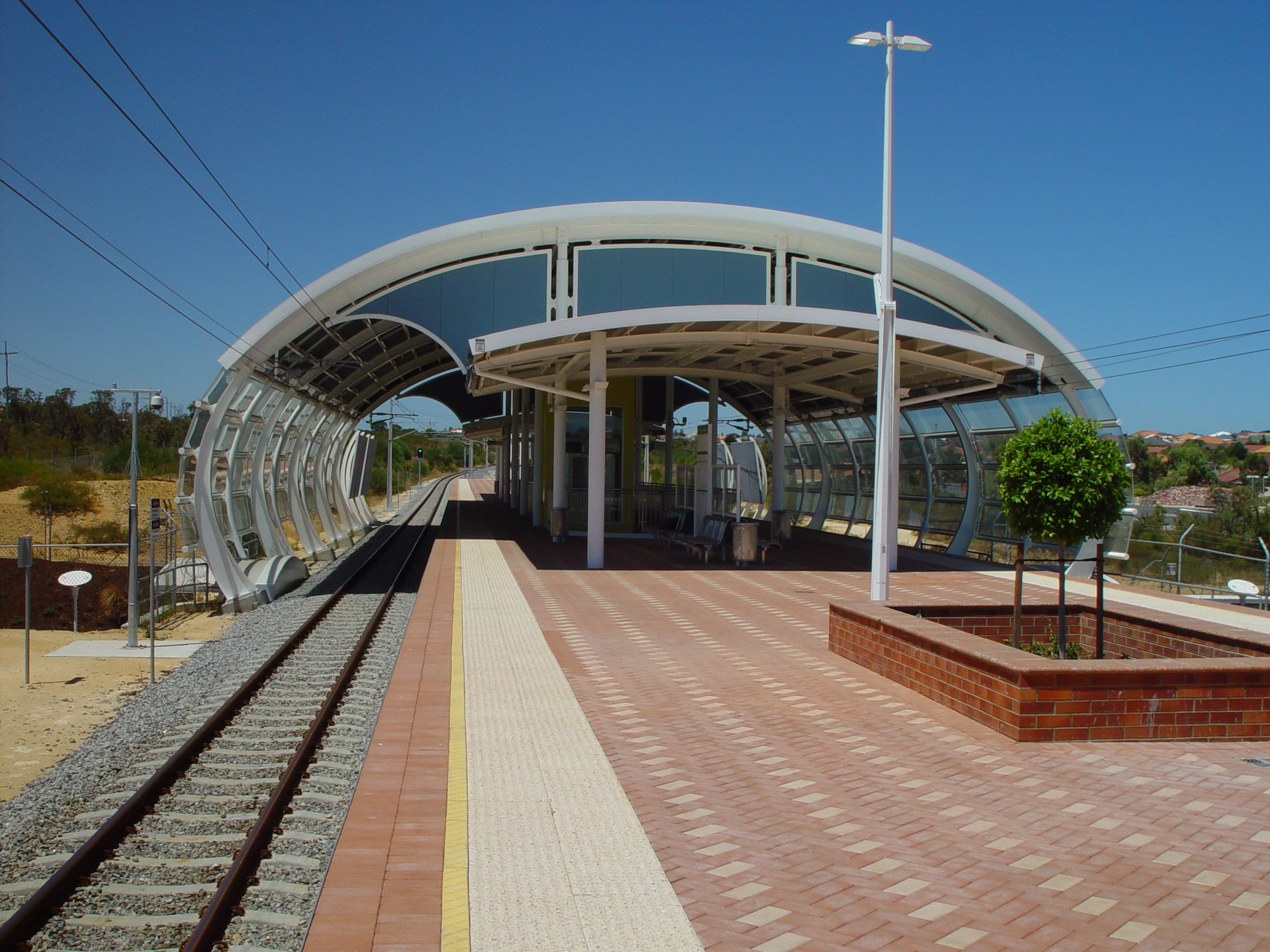 Picture of Currambine Railway Station